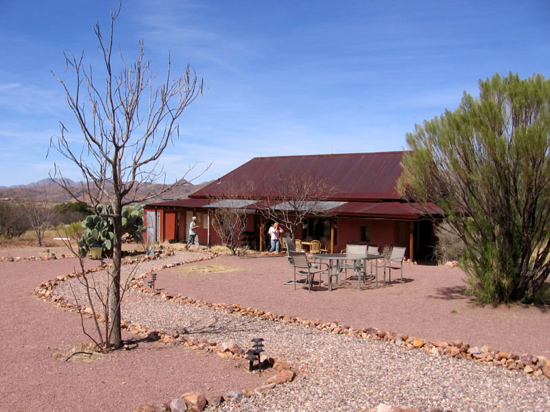 The restaurant at the Tree of Life Rejuvenation Center, Dr. Gabriel Cousens, Patagonia, Arizona, USA